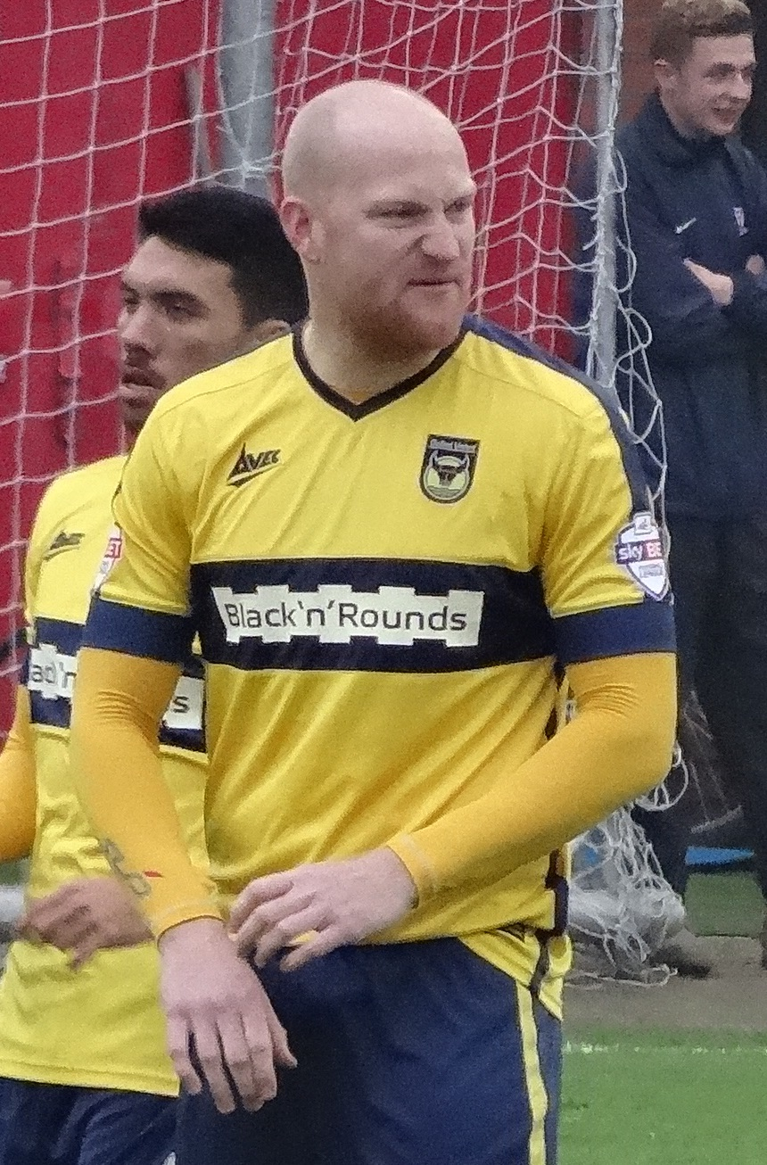 Andrew Whing playing for Oxford United against York City at Bootham Crescent, York on 15 November 2014